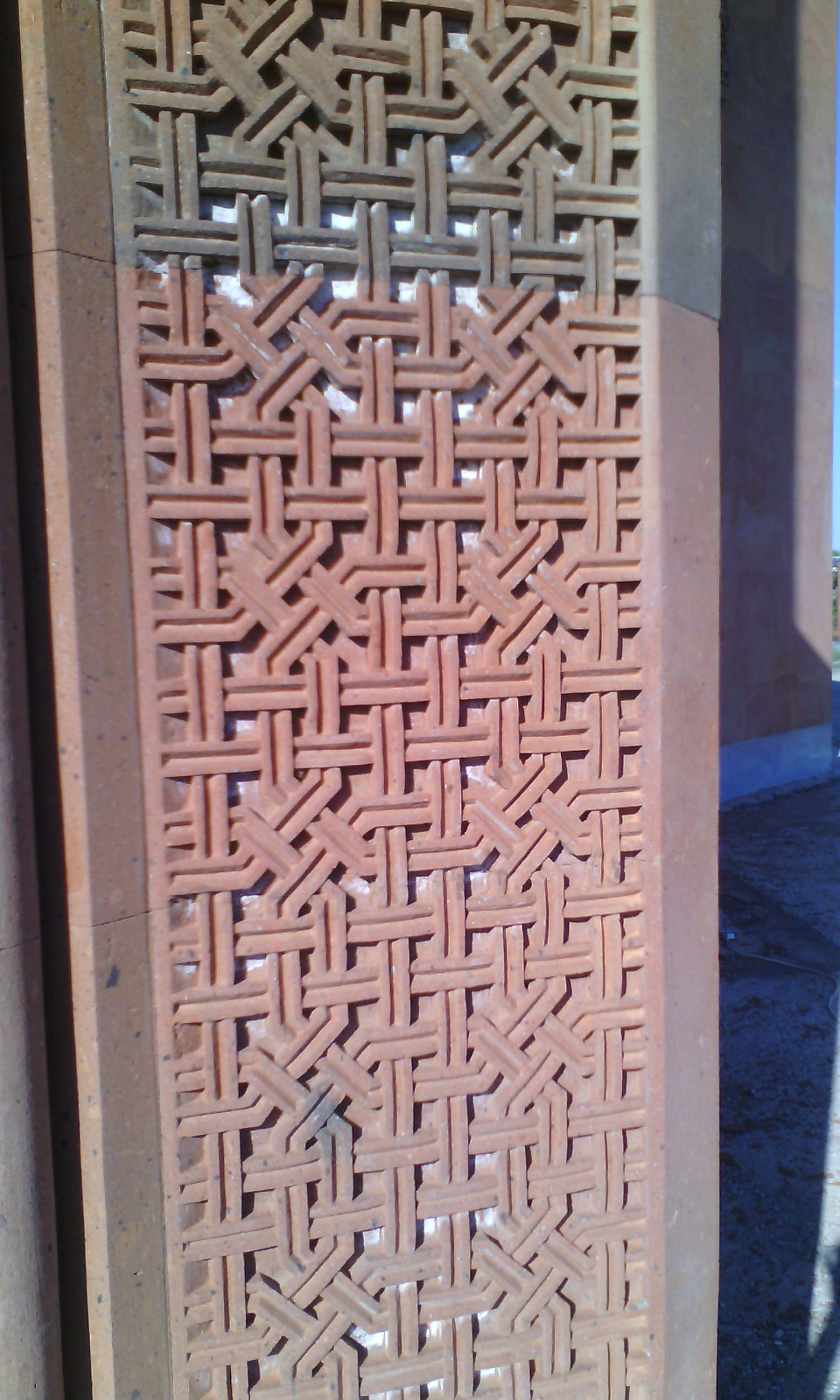 external wall patterns on tufa